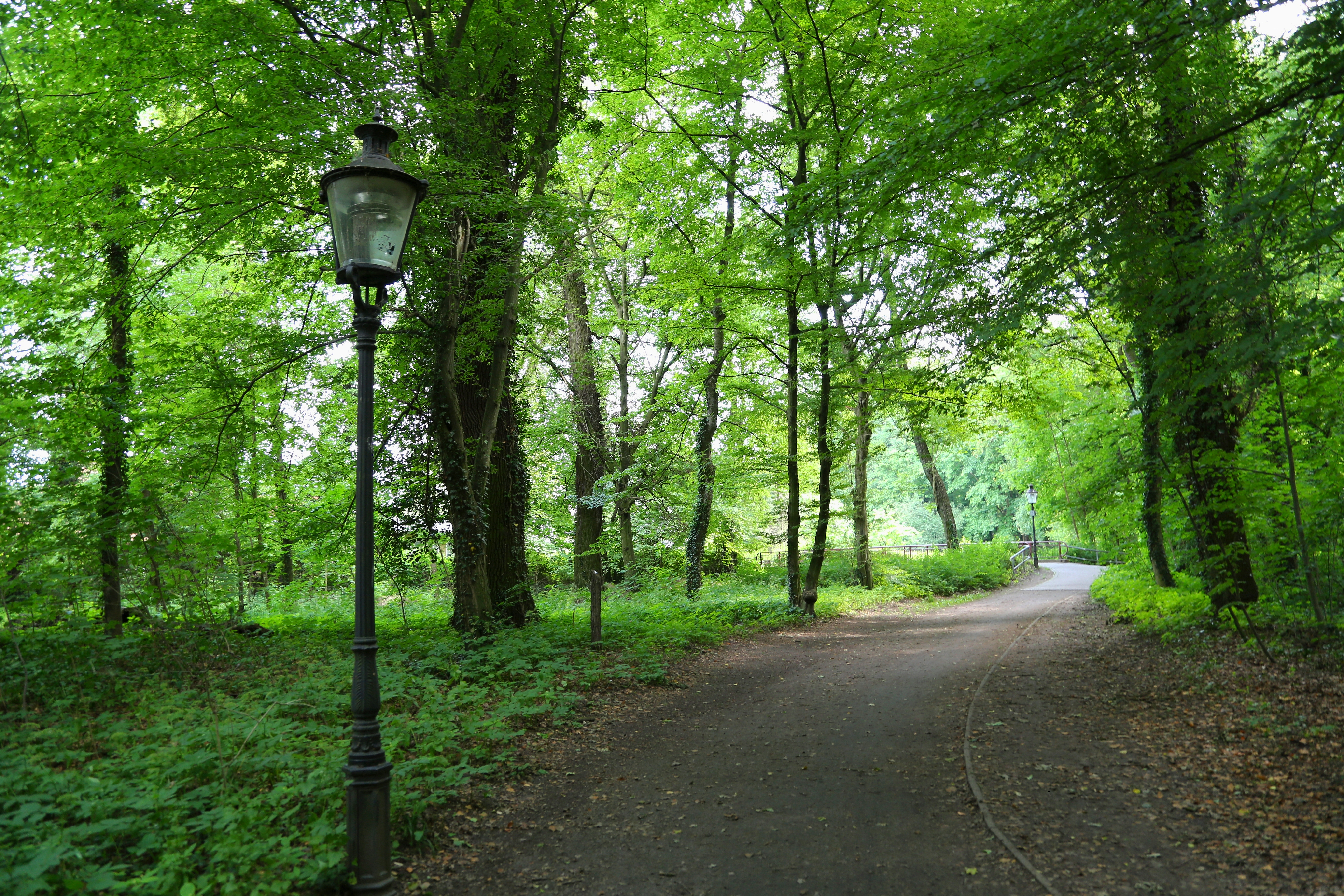 Nature reserve Lübbener Hain in Lübben (Spreewald), Landkreis Dahme-Spreewald, Brandenburg, Germany.